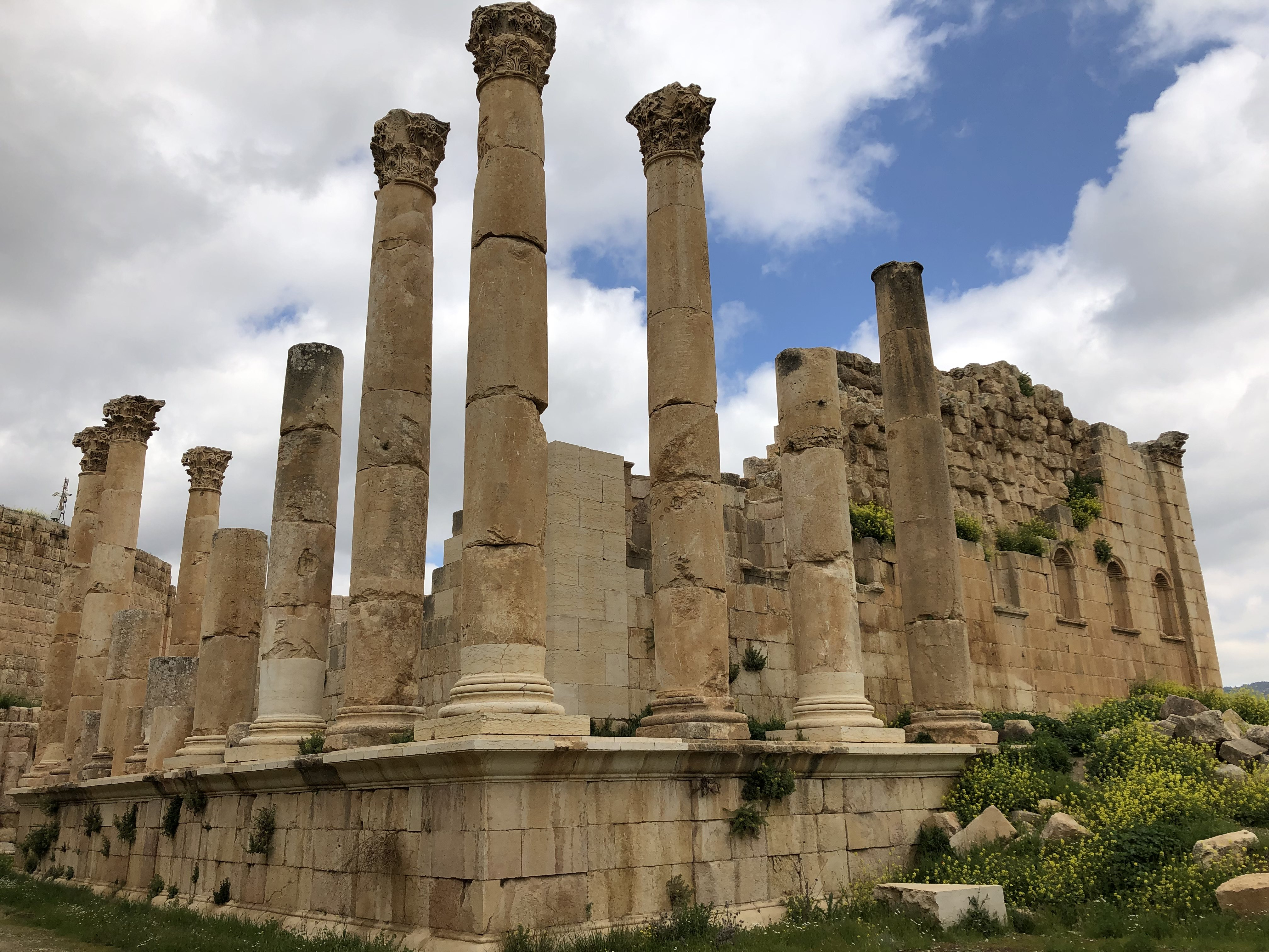 Zeus temple back view